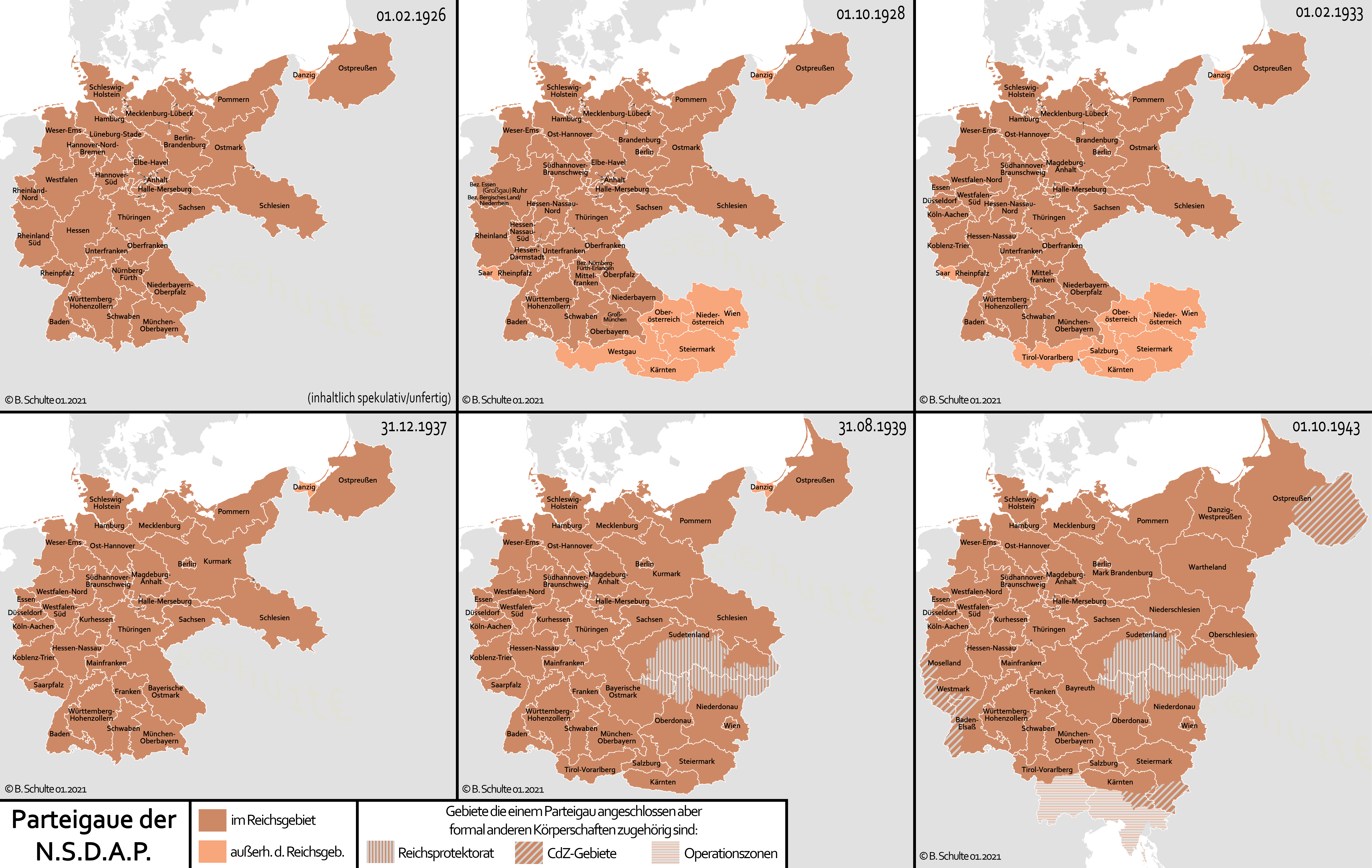 Maps of the party administrative organization of the NSDAP in Parteigaue (also outside of the German Empire). This is not identical with the state structure for example of Reichsgaue.